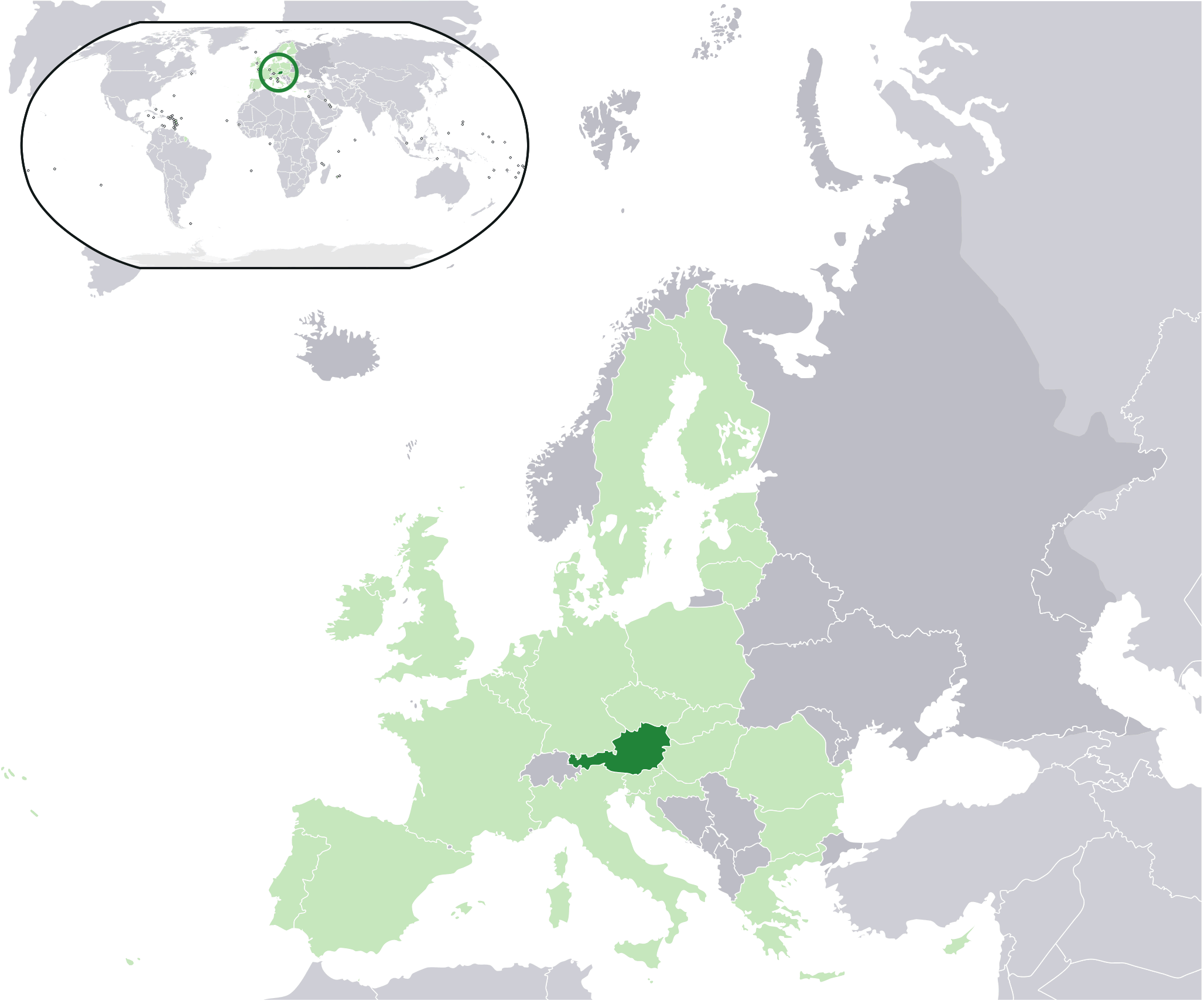 Location map: Austria (dark green) / European Union (light green) / Europe (dark grey); inspired by and consistent with general country locator maps by User:Vardion, et al.